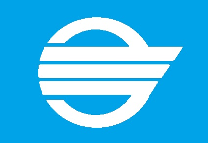 Flag of Yura Wakayama